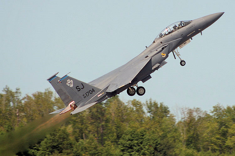 Full afterburner takeoff of an F-15E, 4th Operations Group